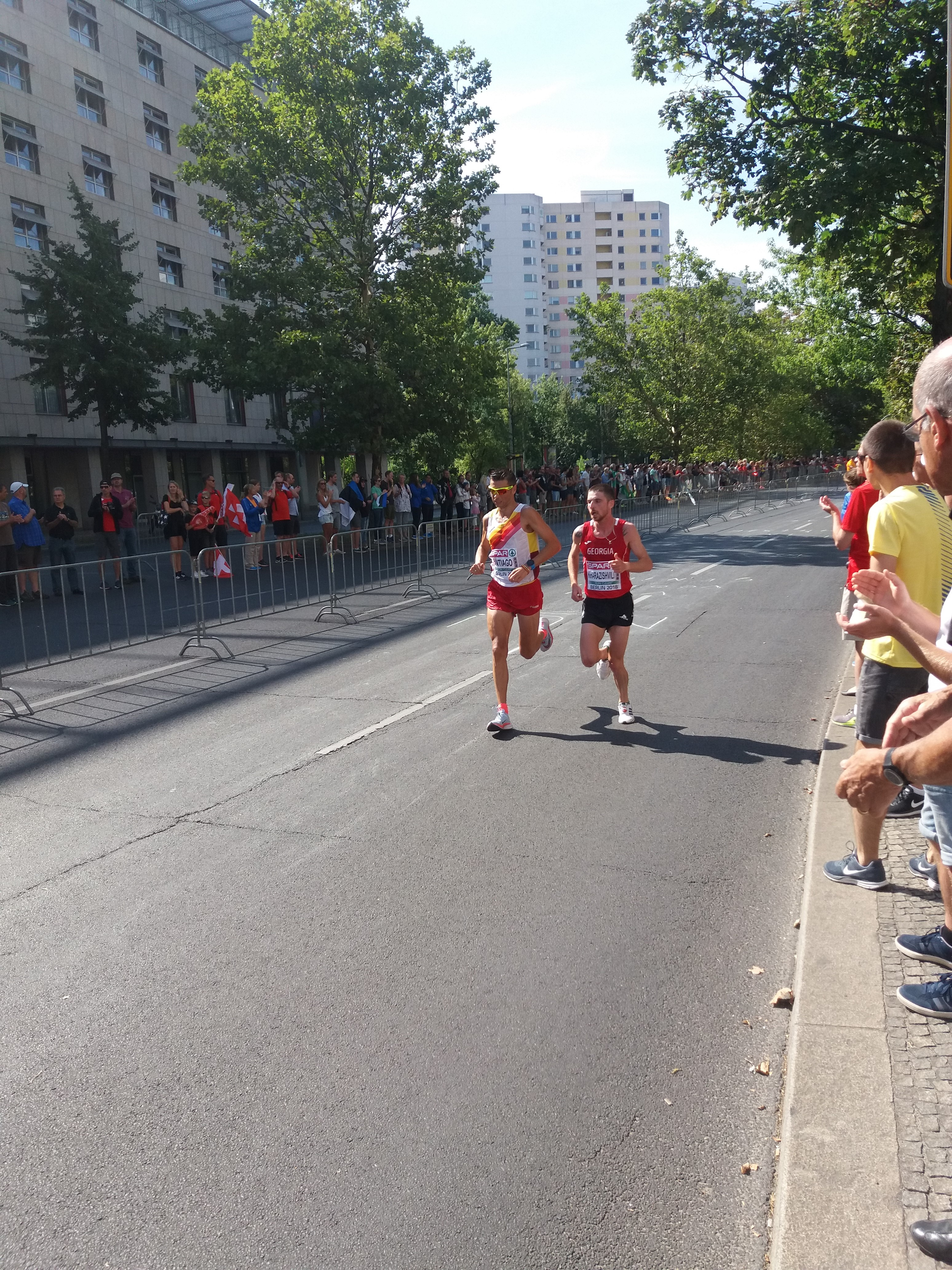 Marathon at the 2018 European Athletics Championships – Camilo Raul Santiago, Daviti Kharazishvili